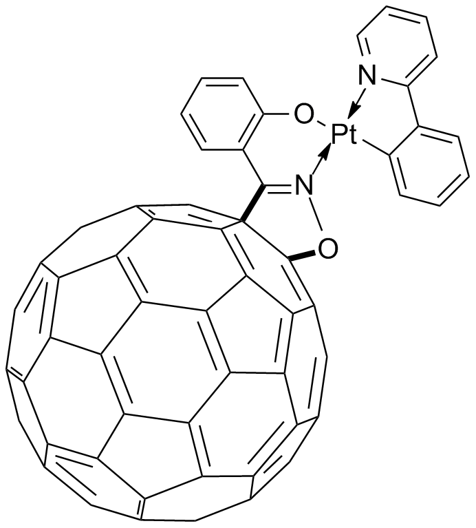 isoxazoline fullerene chelating